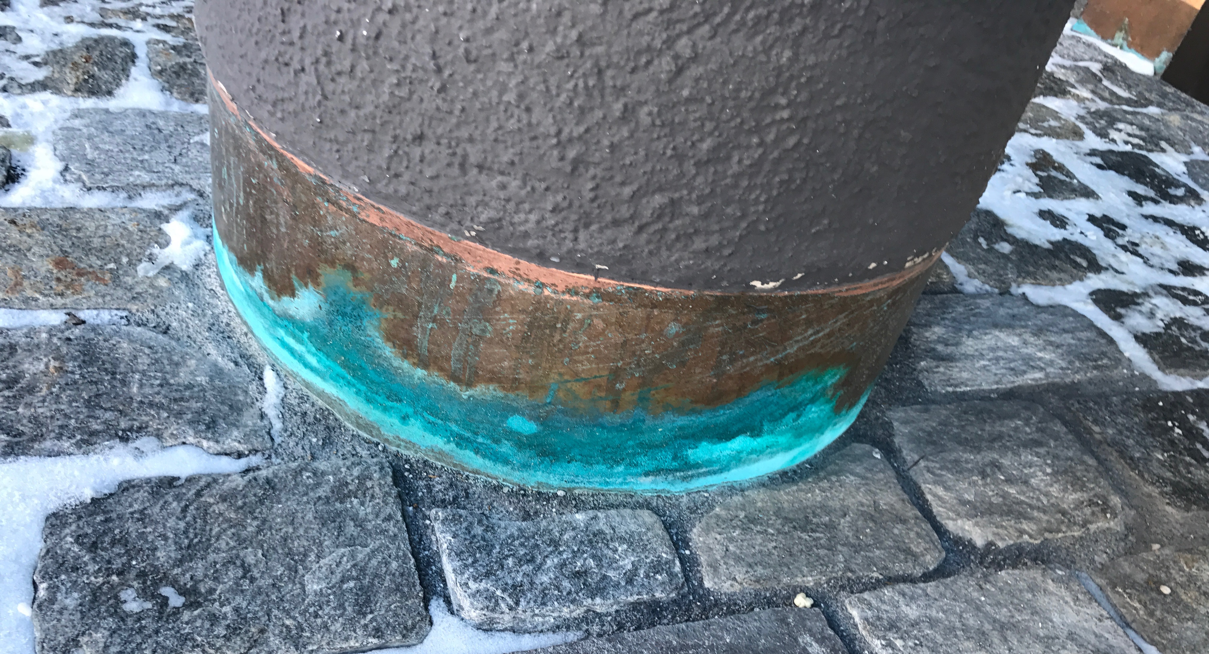 Patina an Kupferblech